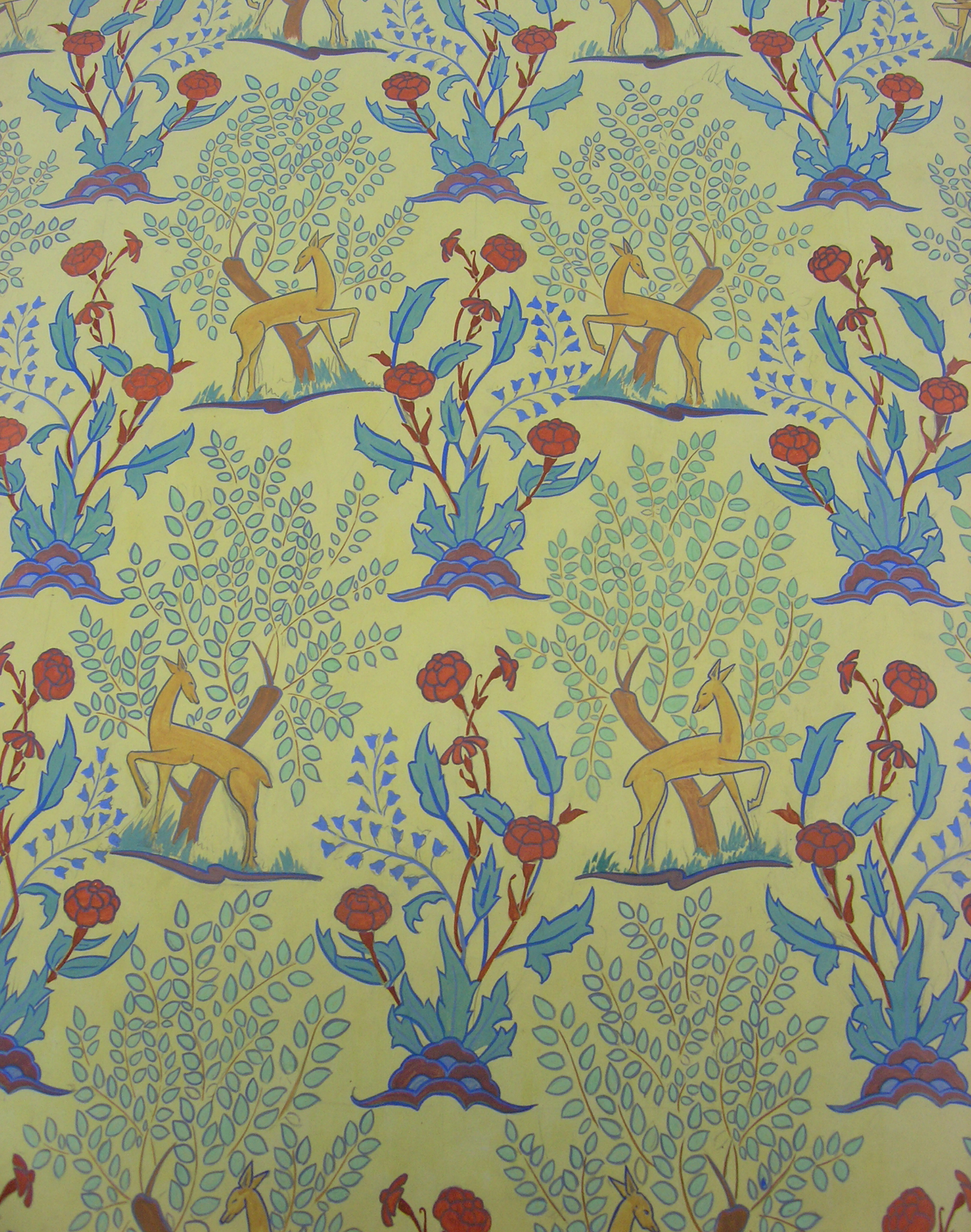 Art Deco wallpaper design, deer with trees, and flower design on ochre background, flower and deer drawing has visible pencil under drawing, mint green, purple, blue, light blue, fawn, red paint colours on paper The wallpaper designer Eileen Rose established a significant body of wallpaper designs. This pattern is indicative of the work she produced. Her career is being studied by Ann Calhoun.